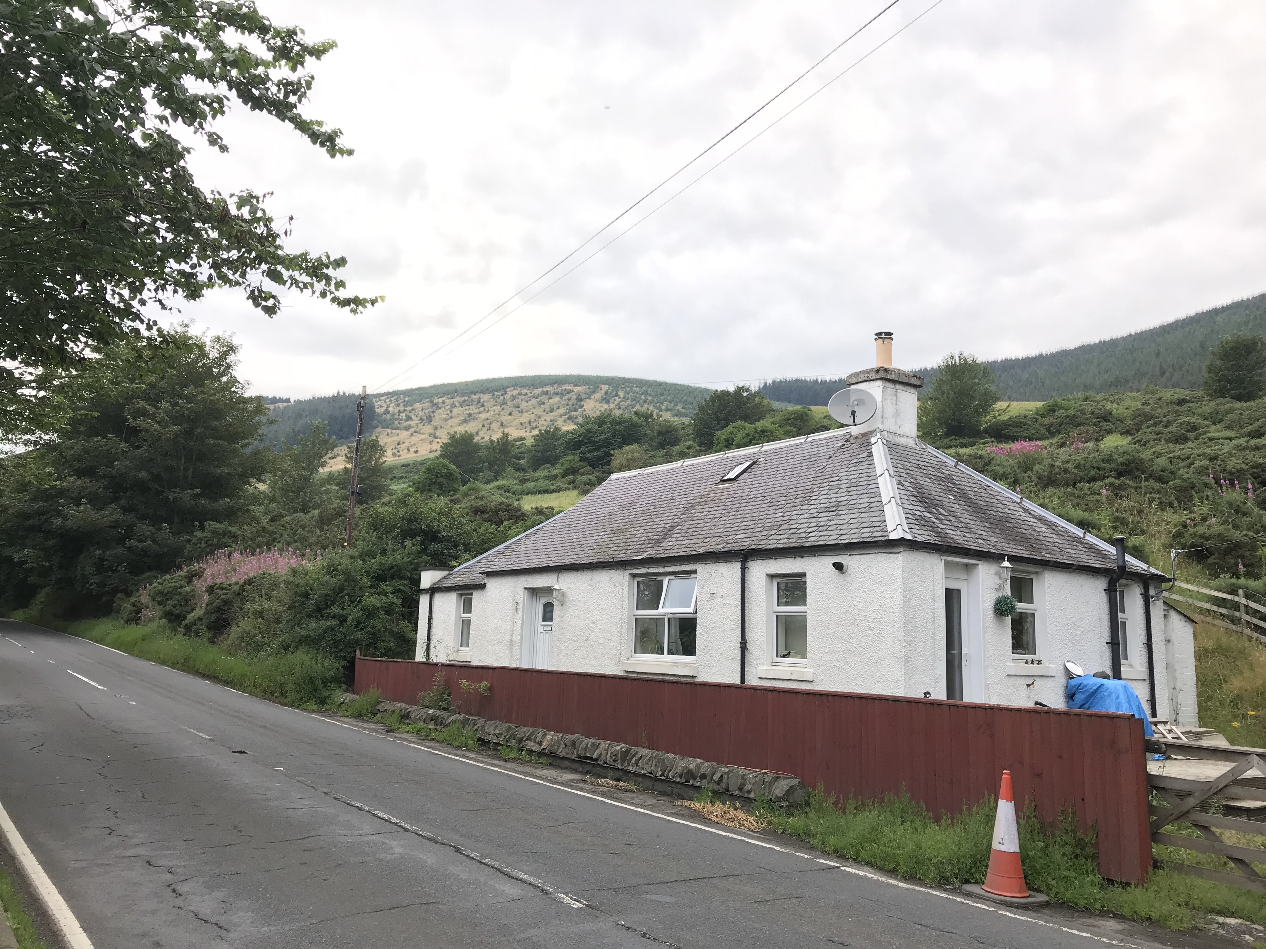 Kirna (or Kirnie) Cottage, Walkerburn, Scottish Borders